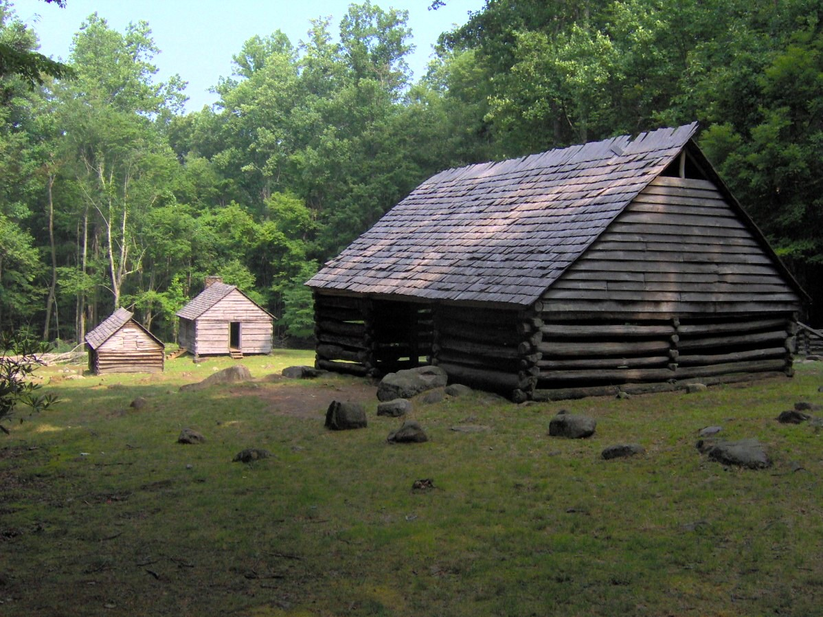 The Jim Bales Place in the Roaring Fork Historic District, GSMNP, in East Tennessee. The barn (foreground) and corn crib (in distance, on the left) belonged to the Bales family. The cabin (in the distance, center) originally belonged to Alex Cole, and was located just below Cole Cemetery in the Sugarlands to the west. The cabin was moved to the Bales farm to replace the Bales' more modern frame house.